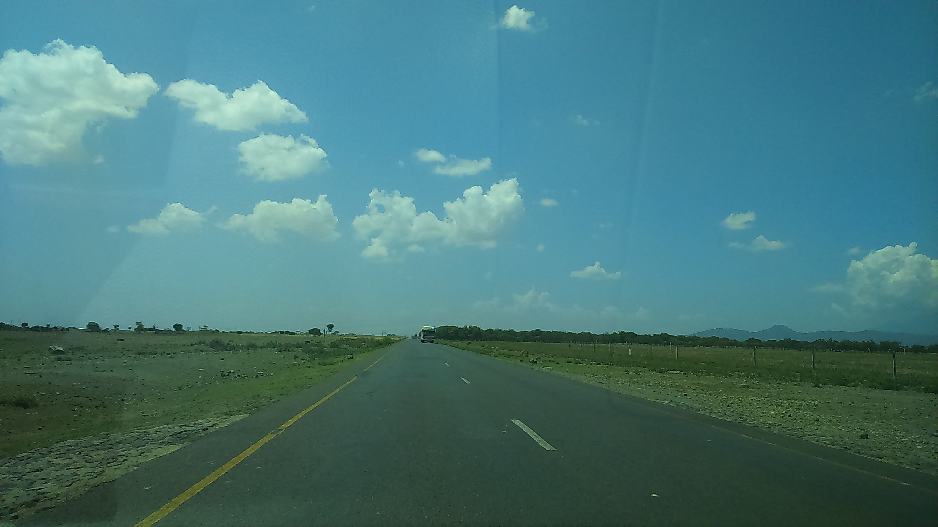 Road trip from Kilimanjaro, entering Arusha